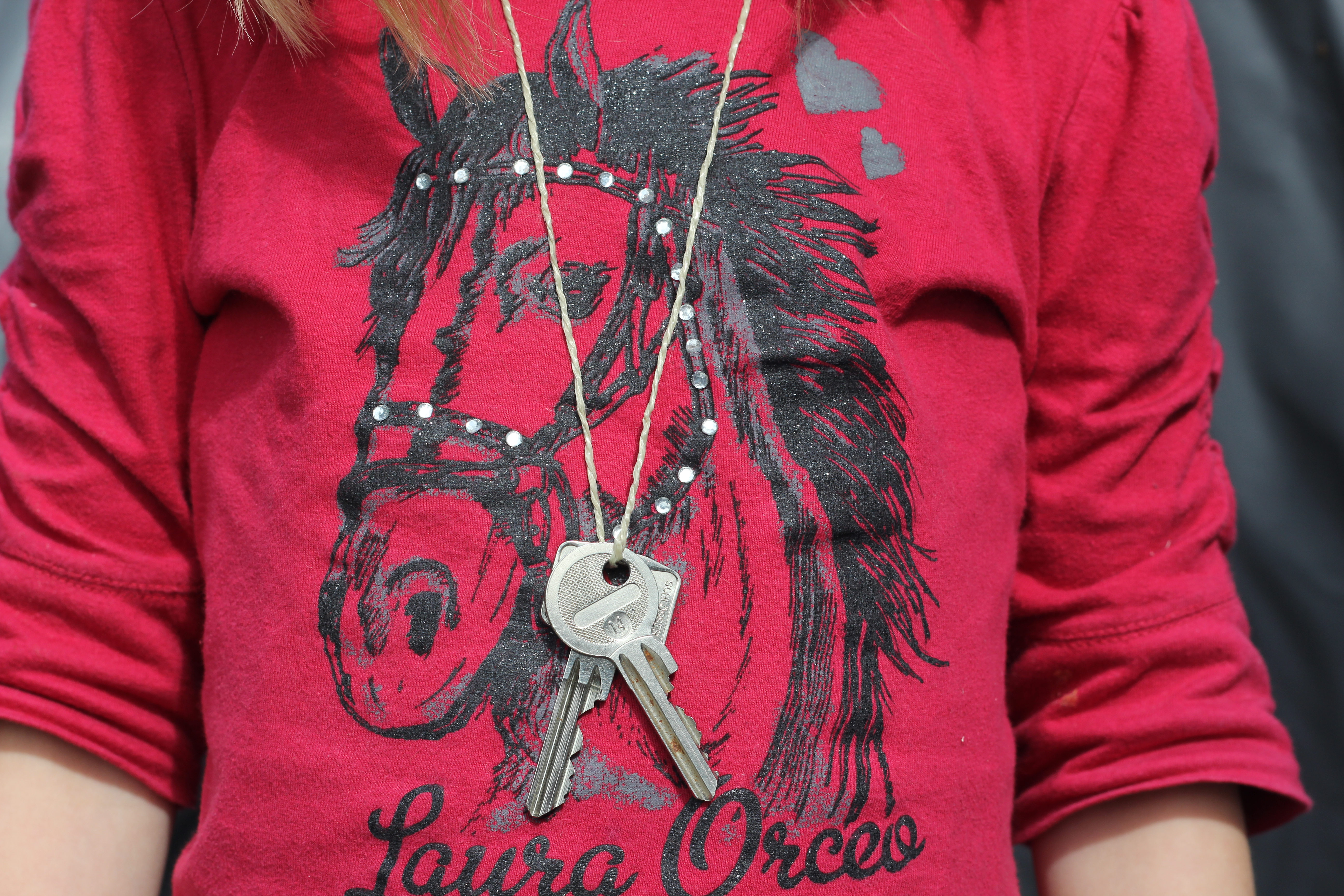 Latchkey kid